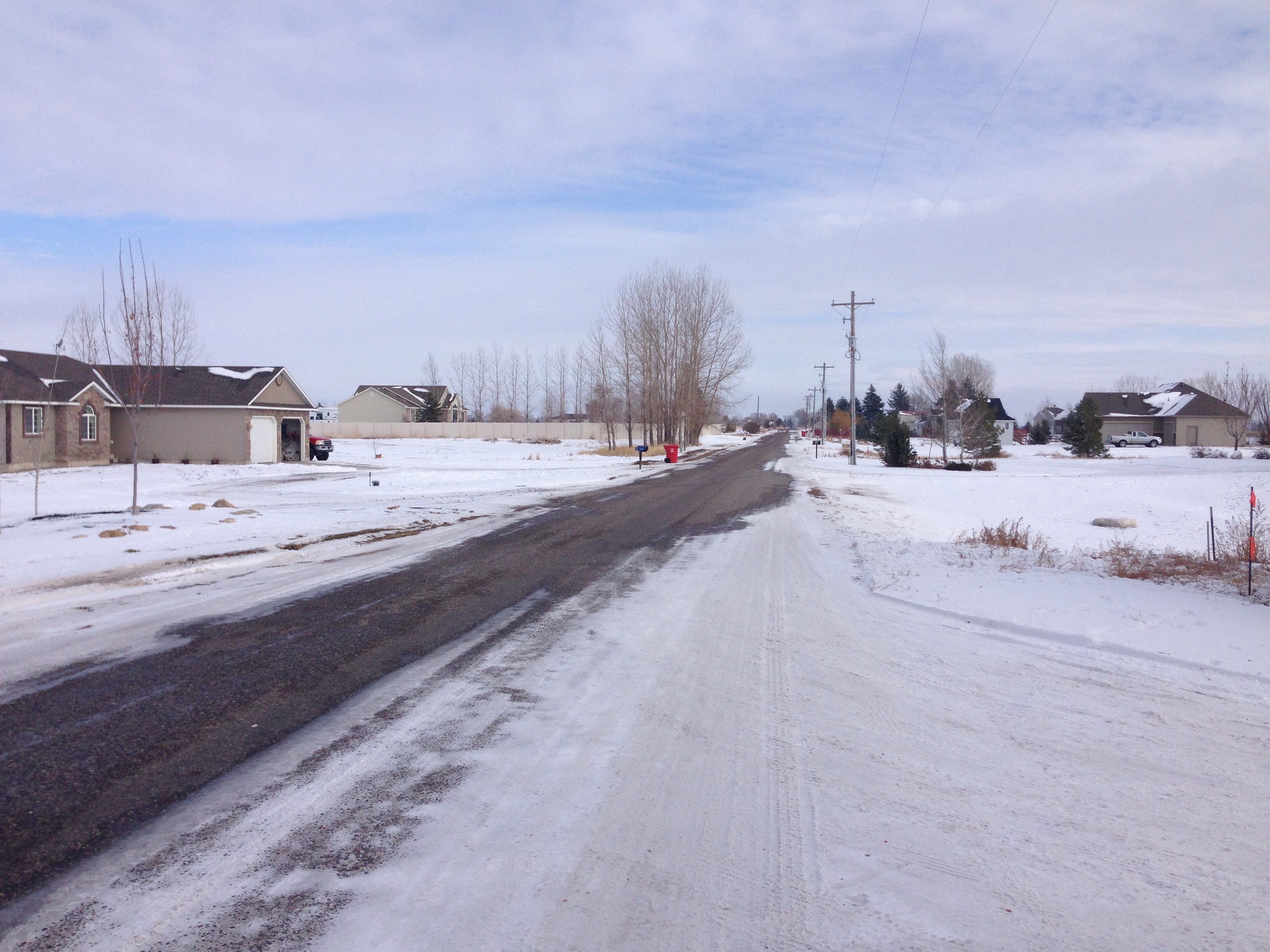 Photograph of the unincorporated community of Grant in Idaho, showing E 100 N or "Farm to Market Road."